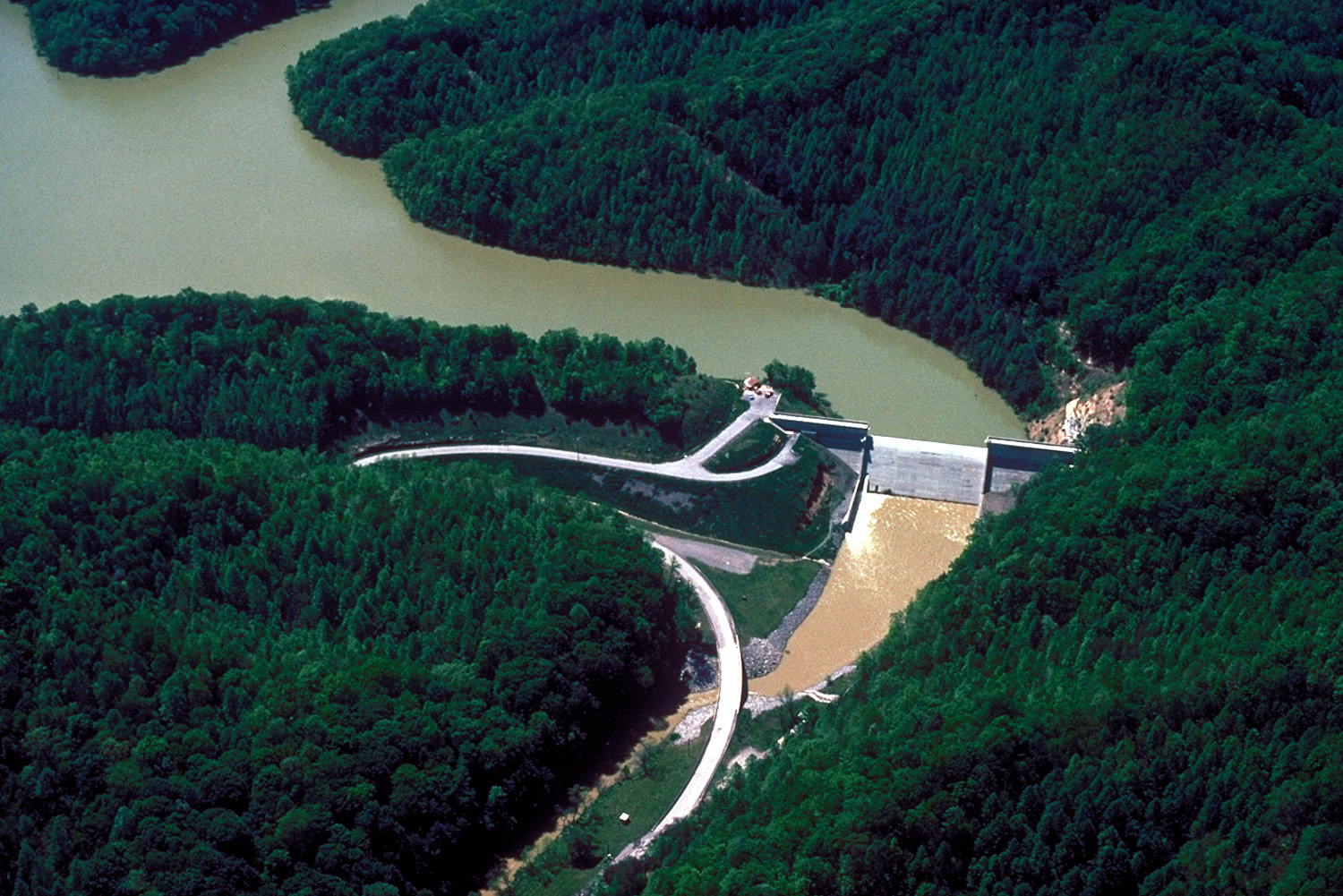 Aerial view of Martins Fork Dam and Lake on the Martins Fork branch of the Cumberland River in Harlan County, Kentucky, USA. The U.S. Army Corps of Engineers constructed the dam for water storage and flood control between 1973–1978. The project was completed and the lake was impounded in December 1978. The dam is 97 feet (30 m) high and 504 feet (154 m) wide. There is no hydroelectric power plant at the dam.